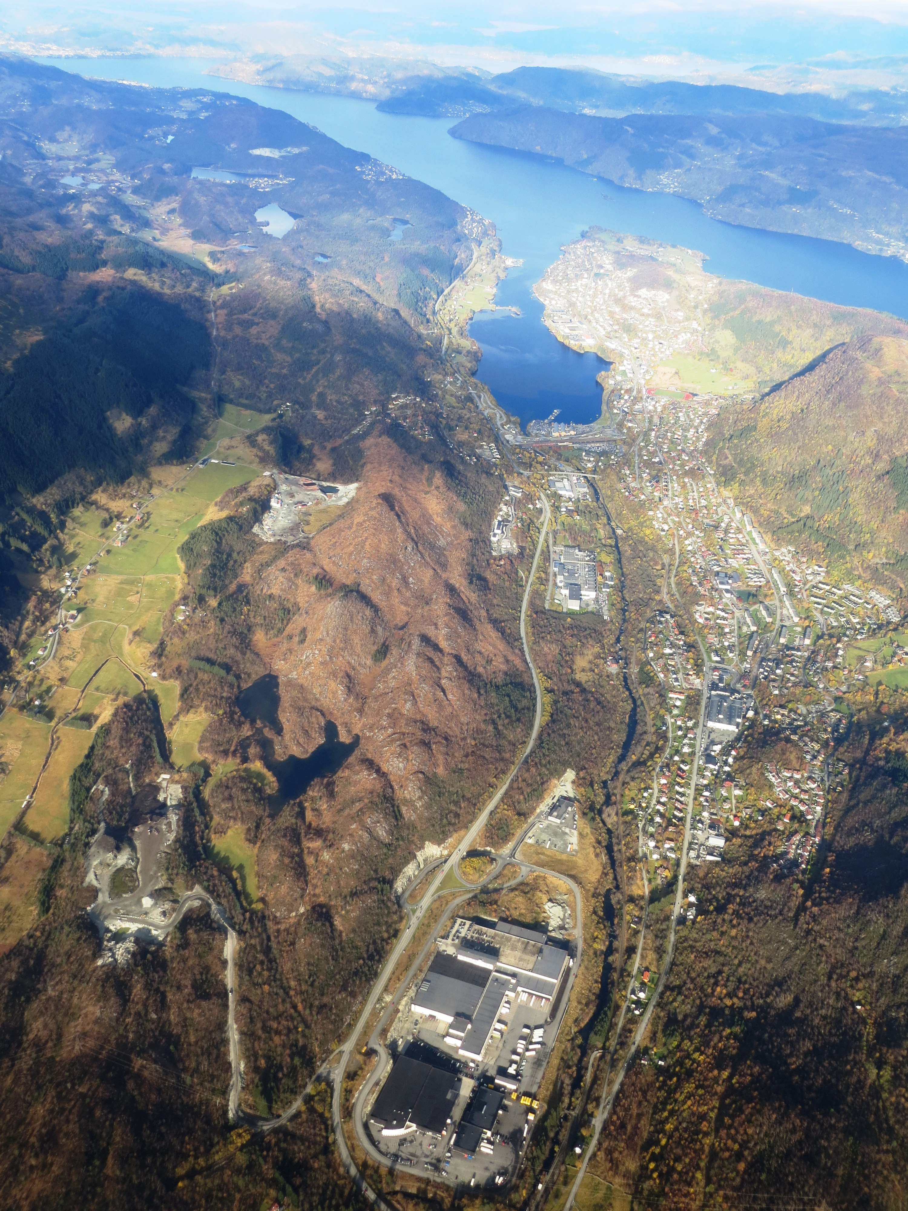 Indre Arna, an industrial town east of Bergen, in the municipality of Bergen by Sørfjorden inlet. Island of Osterøy in the background.